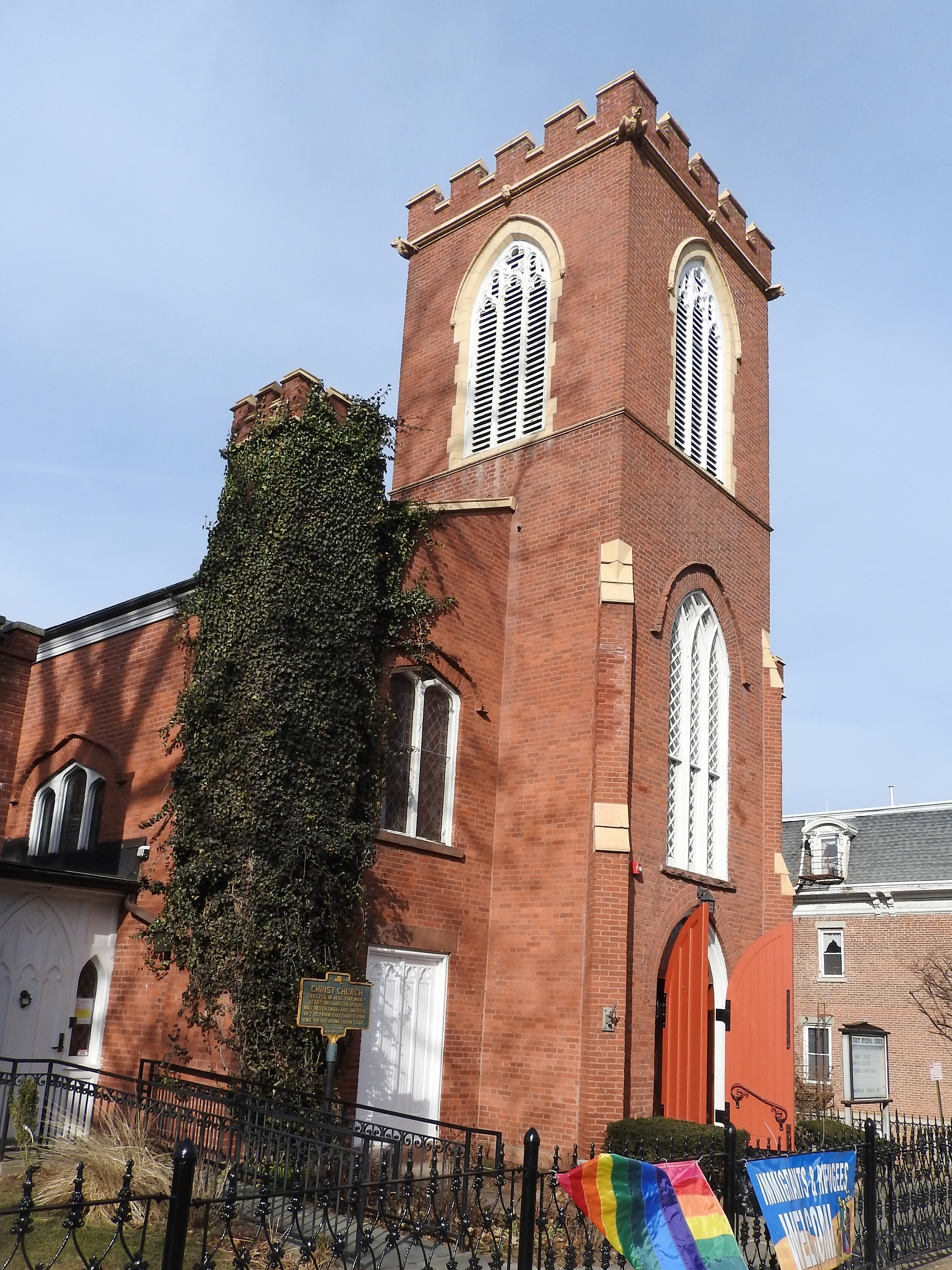 Looking north on a sunny late morning